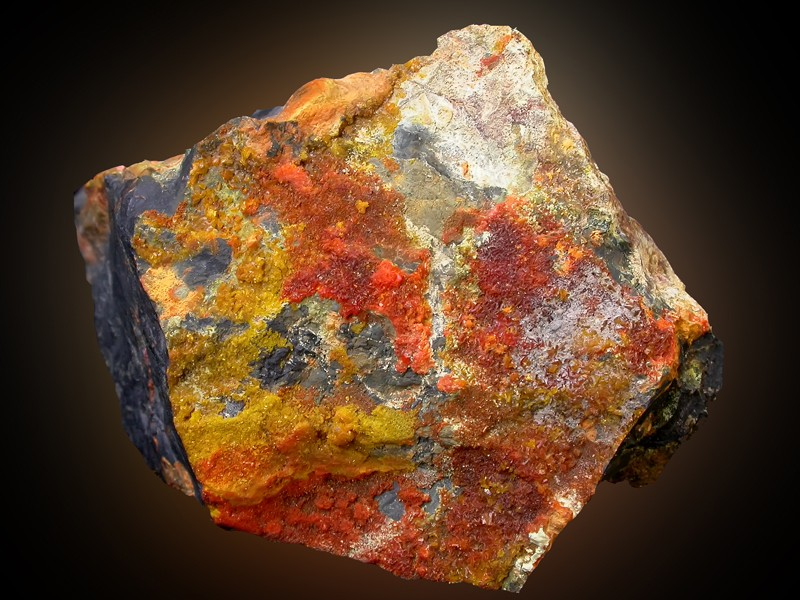 Fourmarierite, Becquerelite, Uraninite Locality: Shinkolobwe Mine (Kasolo Mine), Shinkolobwe, Central area, Katanga Copper Crescent, Katanga (Shaba), Democratic Republic of Congo (Zaïre) (Locality at ) Size: 5 x 5 x 4 cm. A rich example of Uraninite covered with red hexagonal Fourmarierite crystals. The crystals are associated with good sized and well formed Becquerelite crystals. Shinkolobwe is the type locality for both of Fourmarierite and Becquerelite. Ex. Carnegie Museum Collection.